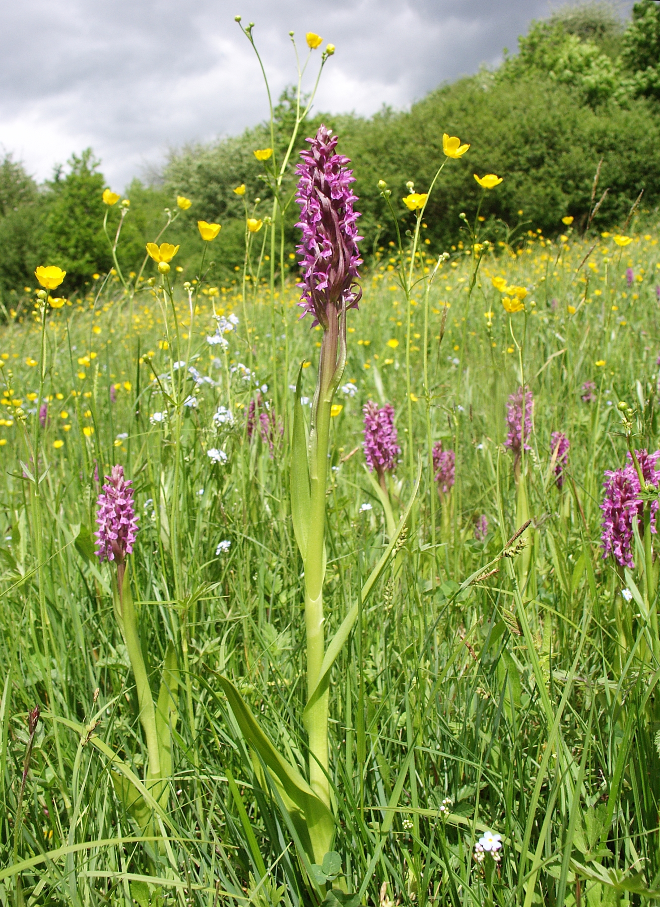 Dactylorhiza incarnata, Virngrund , Germany